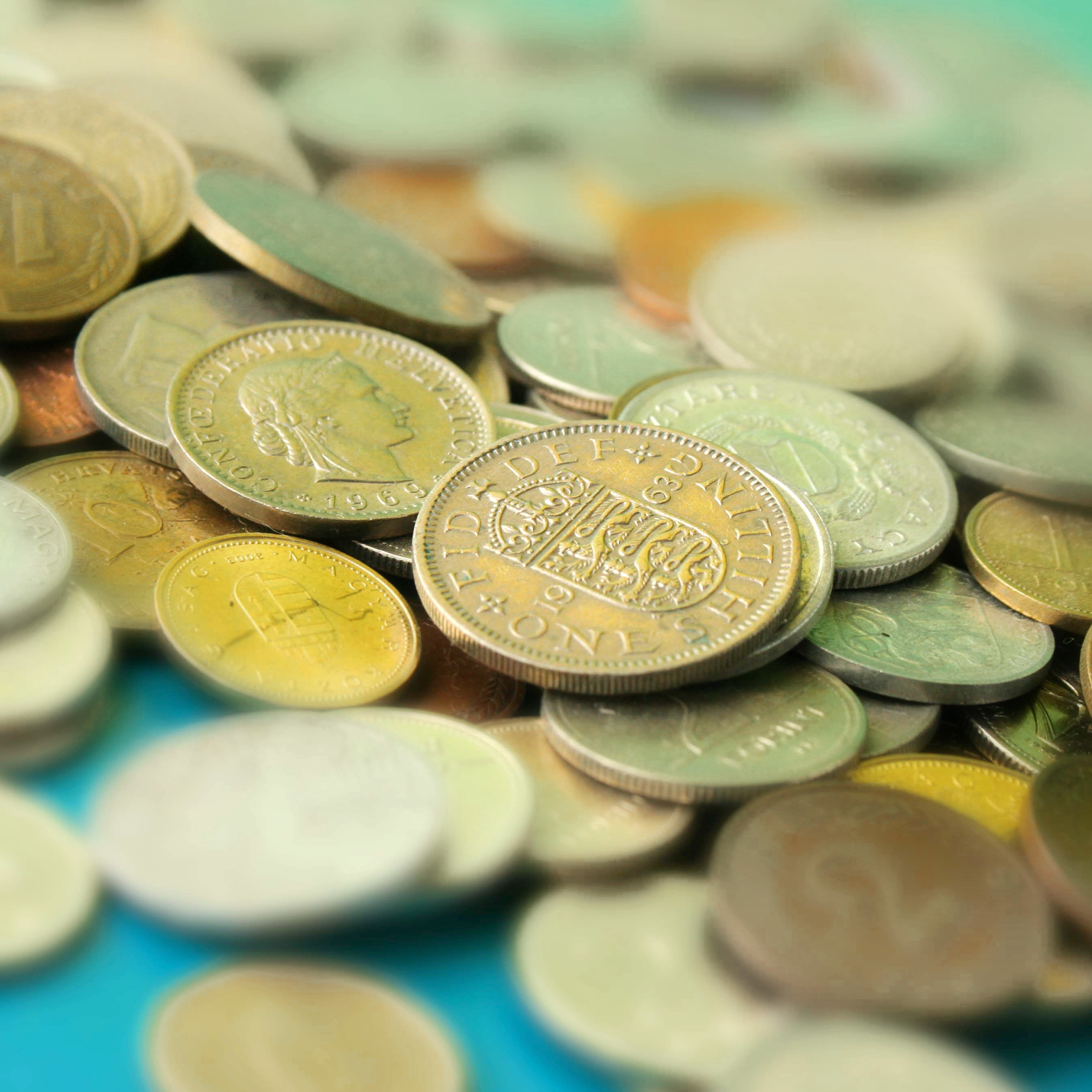 Coins before Euro - European Coins In Circulation